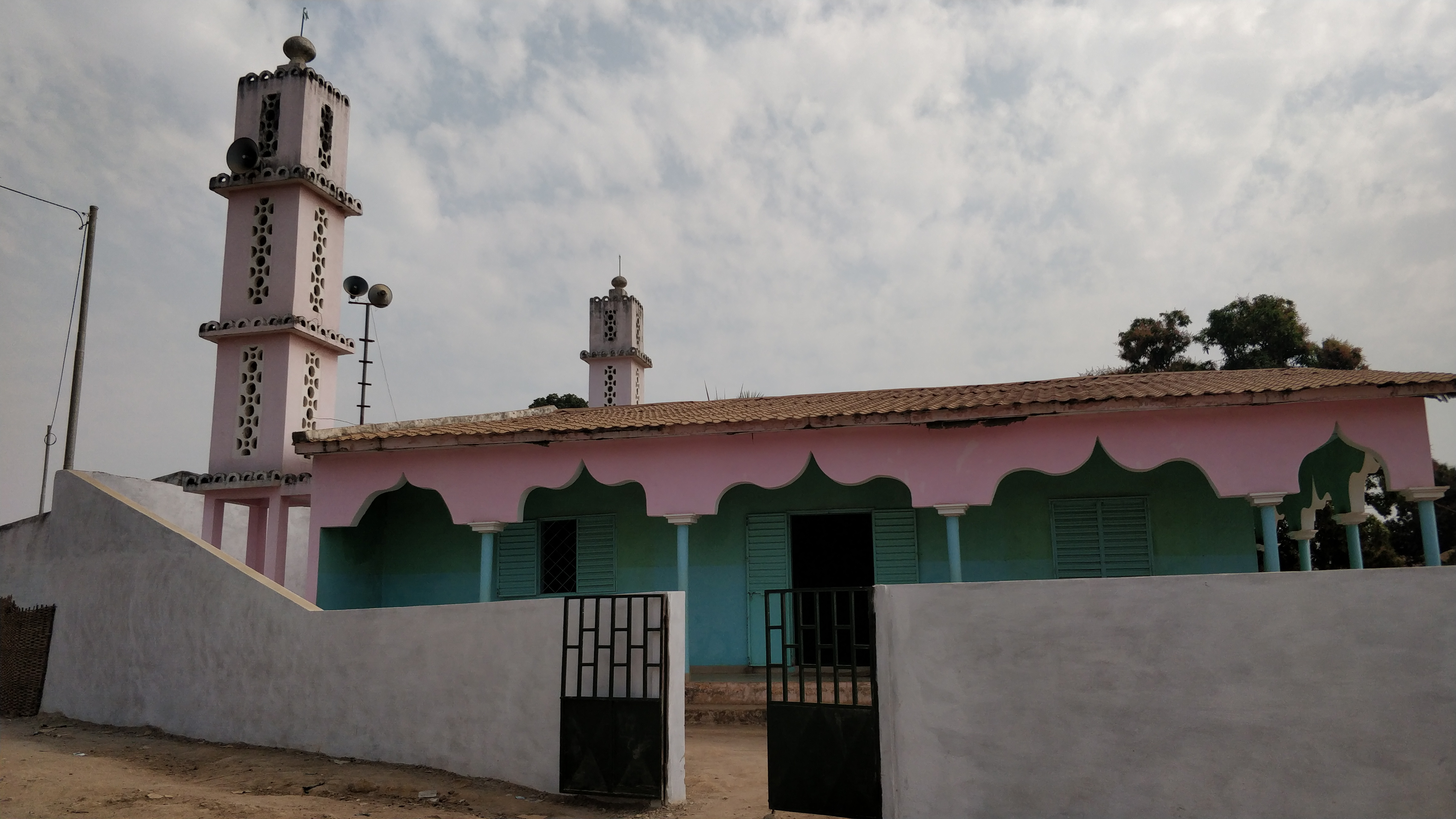 Central mosque, Quebo, Guinea-Bissau